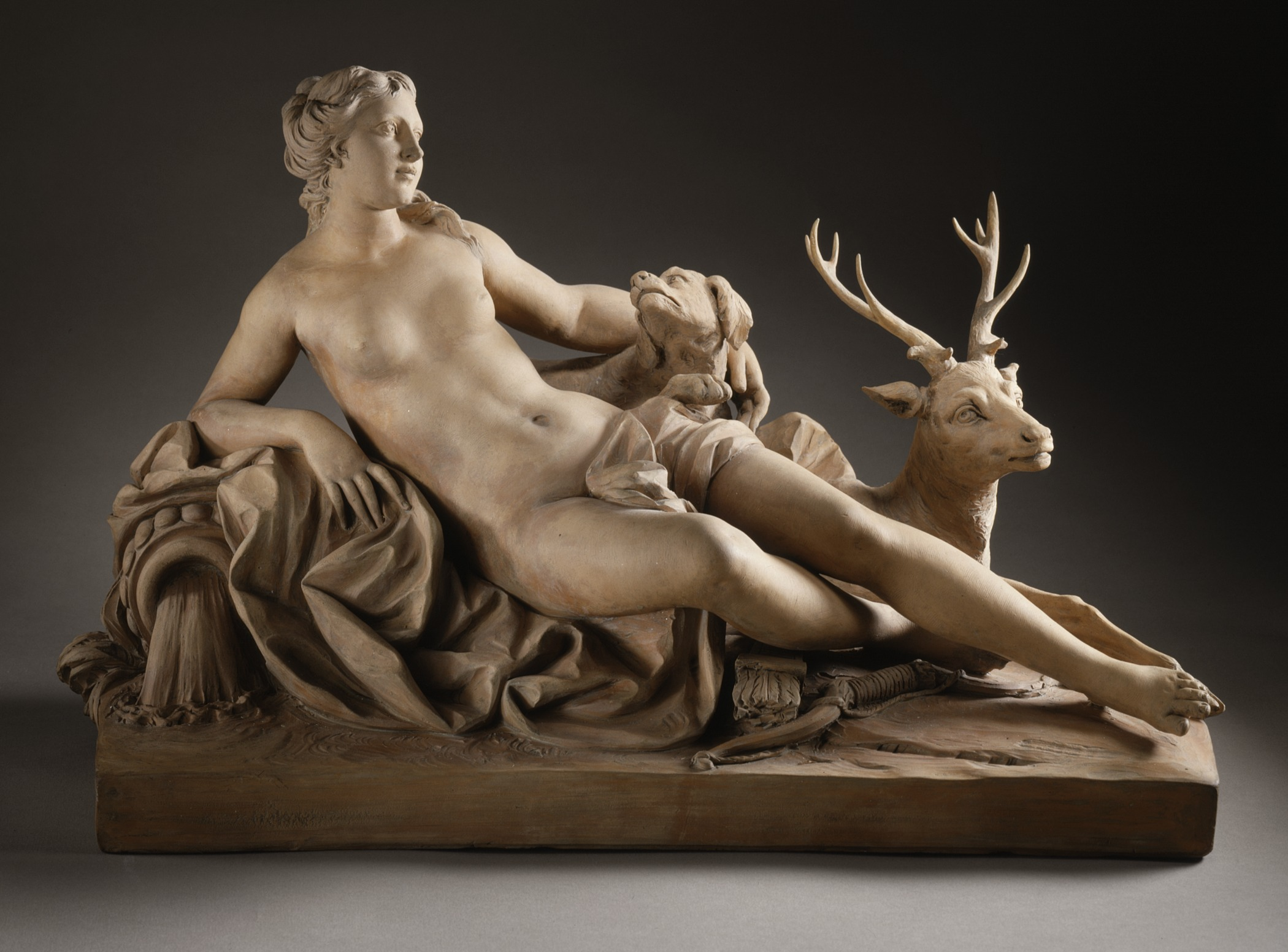 Italy, 1687 Sculpture Terracotta Gift of The Ahmanson Foundation (M.78.77) European Sculpture